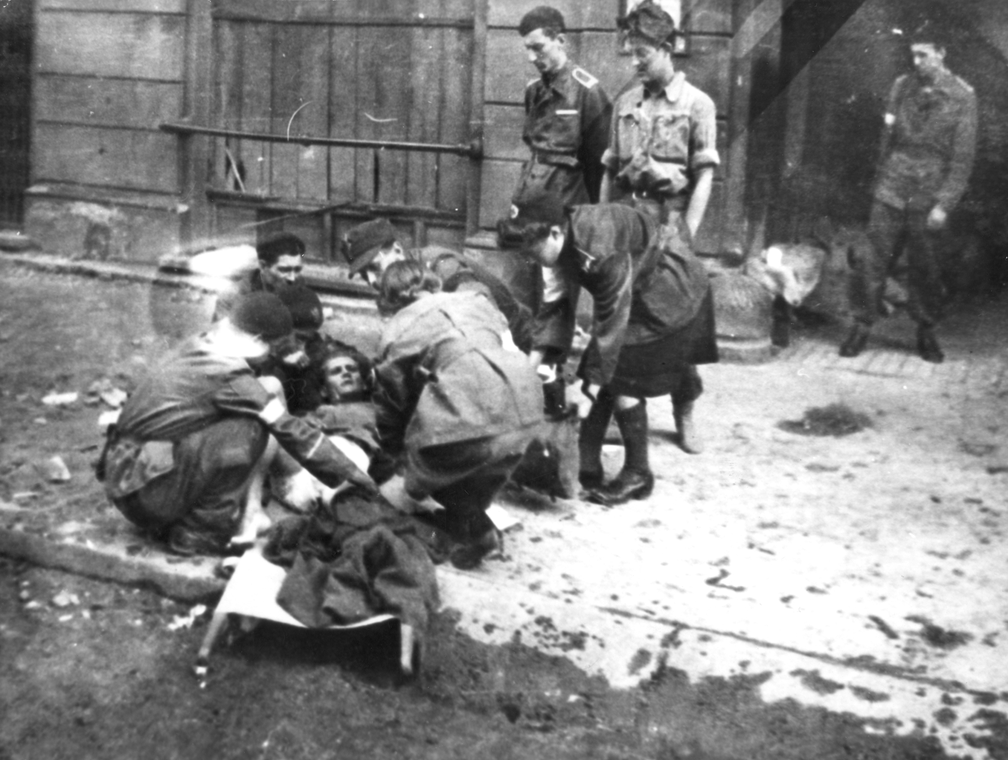 Warsaw Uprising: According to source #3: medics from Nałęcz Battalion help wounded insurgent Henryk Mirowski "Dąb". According to source #4: medics help wounded insurgent Ryszard Głuchowski "Jaworzak" on 55 Chmielna Street. Stending from left: Tadeusz Błażyński "Świda", Andrzej Rażniewski "Krzycki" comander of 3rd platoon. Kneeling: Piotr Osiński "Kaczanowski"; Henryk Łyżwiński "Czarny", Adam Bóbr "Jaxa", Jerzy Bogdanowicz "Hercuń", medic Krystyna Kamał "Szafrańska", medic Maria Jezierska "Bogdańska", leaning over a bag Elżbieta Skrzyńska "Żabska".